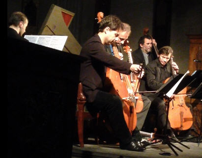 Les Basses Réunies (2015)